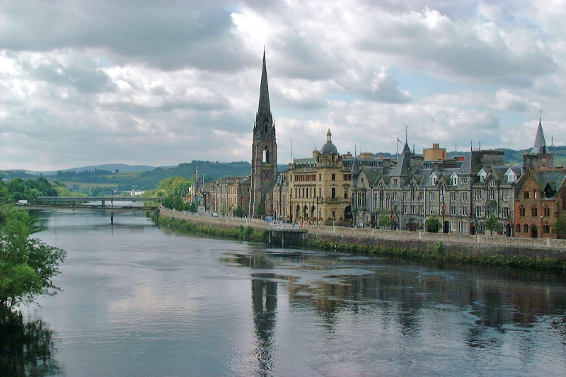 Perth: View of the River Tay from Perth Bridge Pictures also shows the West Bank of the Tay, the Perth & Kinross Council Offices and Queen's Bridge in the distance